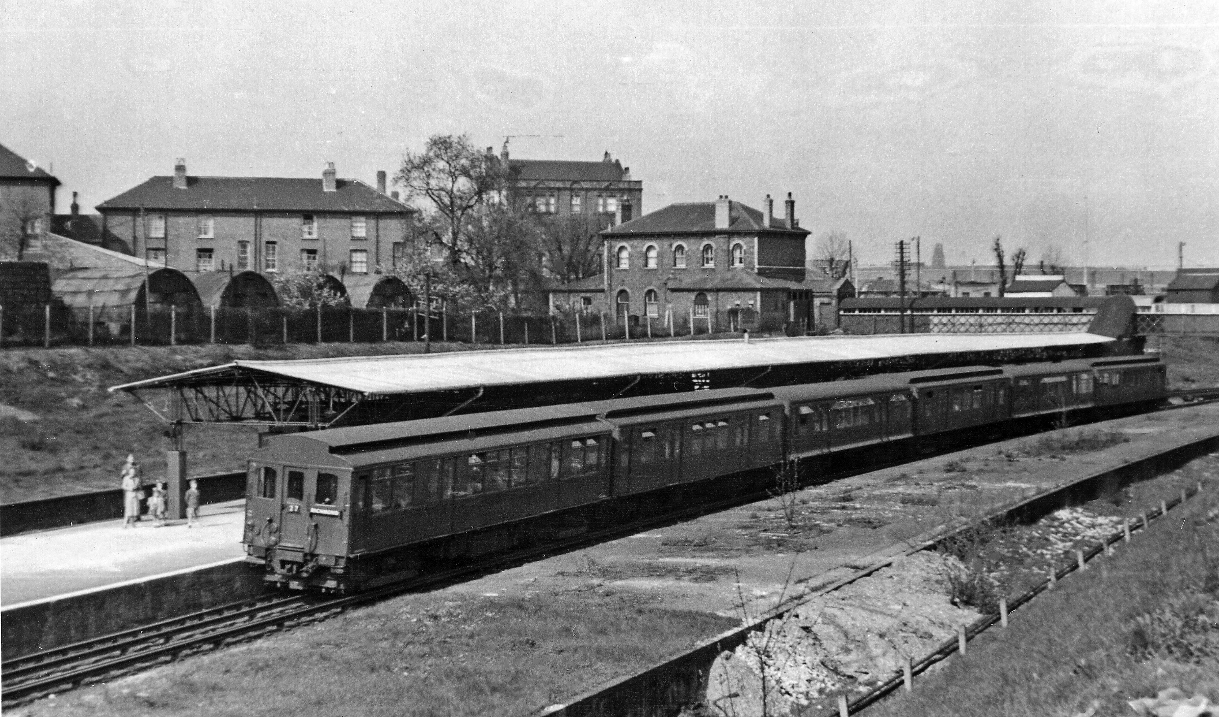 Gunnersbury Station, with District Line train for Richmond. View NW, towards Acton Central, Willesden and the North London Line - now London Overground (branching left) and Hammersmith, Victoria etc. and Upminster by LPTB District Line (branching to the right) - whence the train has come. To the left the line goes over the River Thames to Kew Gardens and Richmond. The station was badly damaged by a tornado in 1954 and in 1955 still had a temporary roof.